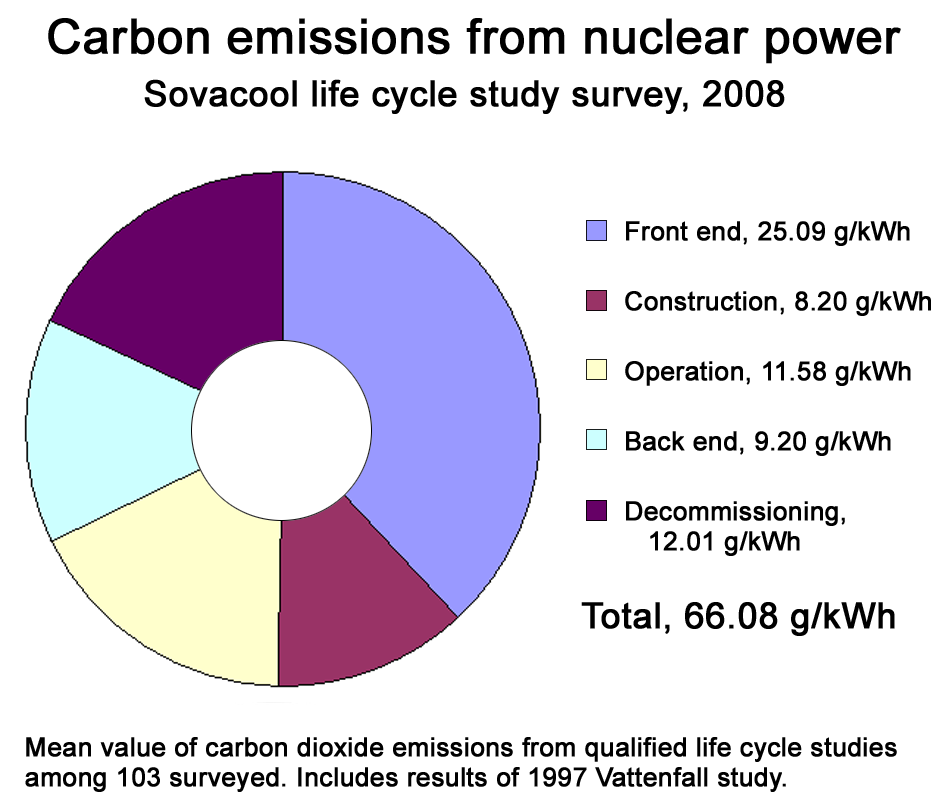 Mean value of nuclear power greenhouse gas emissions based on 2008 Sovacool study. The study was a survey of 103 life cycle studies of greenhouse gas equivalent emissions for nuclear power plants to identify a subset of the most current, original, and transparent studies. It includes the 1997 Vattenfall study.